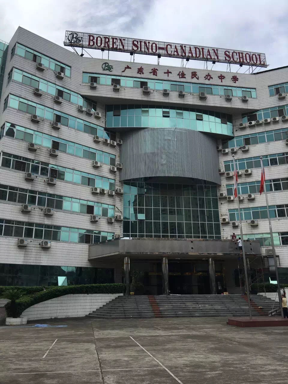 Boren Sino-Canadian School's 8 storey campus building.